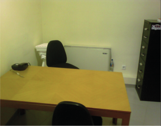 First .cat office (2006-07)